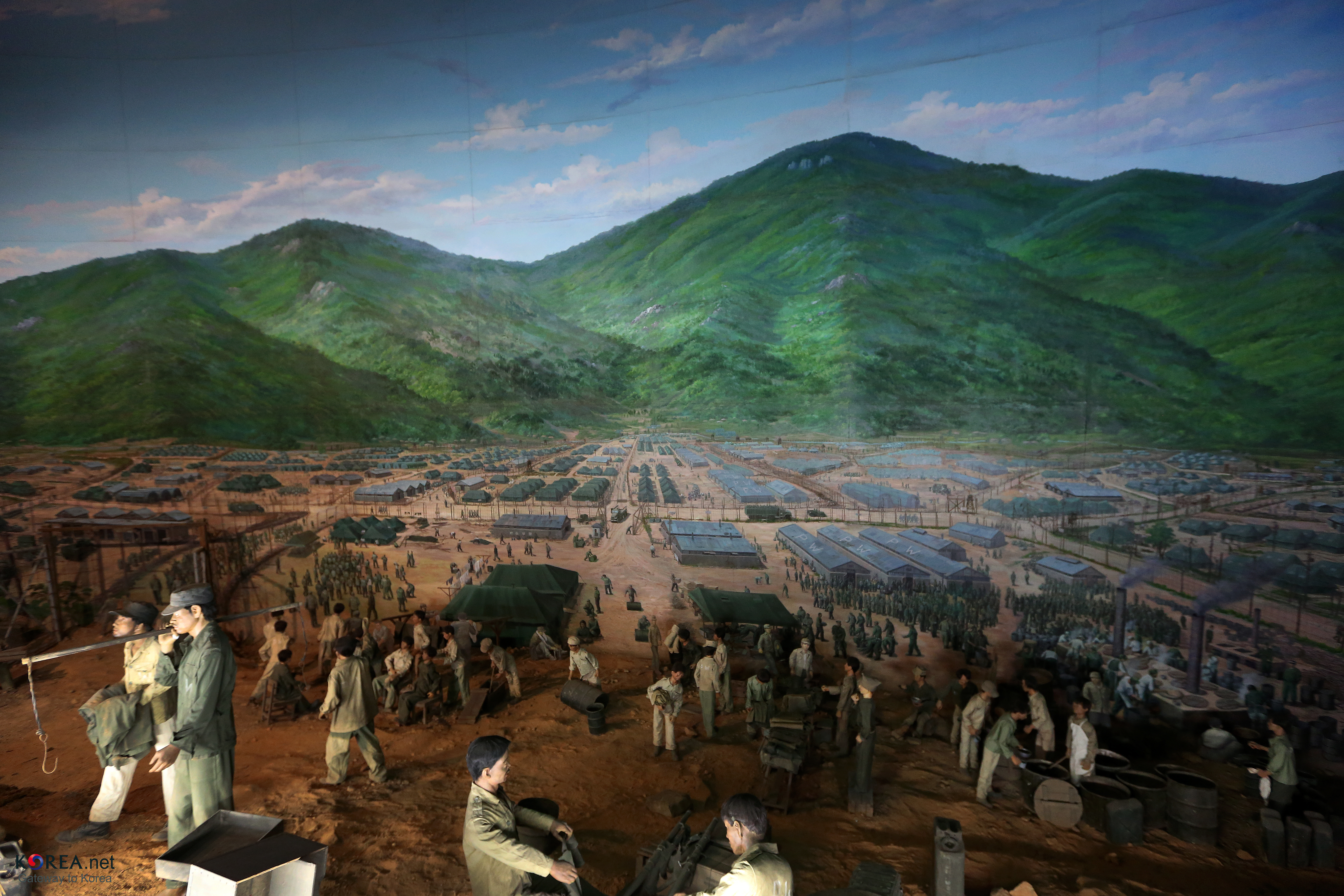 Historic Park of Geojedo P.O.W. Camp A P.O.W. camp was completed on a site of about 10 million m2 around Gohyeon, Suwol, and Yangjeong areas on November 27, 1950. Up to 173,000 prisoners of war including 150,000 North Korean soldiers, 20,000 Chinese soldiers, and 3,000 women soldiers and militias were encamped. With the signing of truce on July 27, 1953, the camp was closed. A park was constructed to recreate the everyday life of prisoners of war based on the material and record of the time. The diorama hall that vividly portrays the camp at the time is a must see. (Geoje-si) 2013.09.27. Geojedo, Gyeongsangnam-do Ministry of Culture, Sports and Tourism Korean Culture and Information Service ( JEON HAN 거제포로수용소 유적공원 거제포로수용소유적공원은 1950년 6월 25일 한국전쟁에 의한 포로들을 수용하기 위하여 1951년 2월부터 고현, 수월지구를 중심으로 설치되었다. 1951년 6월 말까지 인민군 포로 15만, 중공군 포로 2만명 등 최대 17만3천명의 포로를 수용하였으며 그 중에는 300여명의 여자포로도 있었다. 그러나 반공포로와 친공포로간에 유혈살상이 자주 발생하였고, 1952년 5월 7일에는 수용소 사령관 돗드준장이 포로들에게 납치되는 등 냉전시대 이념갈등의 축소현장과 같은 모습이었다. 지금은 잔존건물 일부만 곳곳에 남아 있는 이곳은 당시 포로들의 생활상, 막사, 사진, 의복등 생생한 자료와 기록물들을 바탕으로 거제포로수용소유적공원으로 다시 태어나 전쟁역사의 산 교육장 및 세계적인 관광명소로 조성하게 되었다. 거제포로수용소유적공원은 1983년 12월에 경상남도 문화재 자료 제99호로 지정 보호되고 있다. (글: 거제시) 거제도, 경상남도 문화체육관광부 해외문화홍보원 코리아넷 전한 巨济岛俘虏收容所遗迹公园 自1950年11月27日开始，在巨济岛古县、水月、良井等地区修建了占地面积达360万坪的俘虏收容所，收容了15万人民军、2万志愿军、3千名女俘虏和义勇军等，俘虏最多时达17.3万名。1953年7月27日签署停战协议后，该收容所被关闭。 根据当时的史料和记录，近期建设了俘虏收容所遗迹公园，不能错过的看点是逼真的现场图。